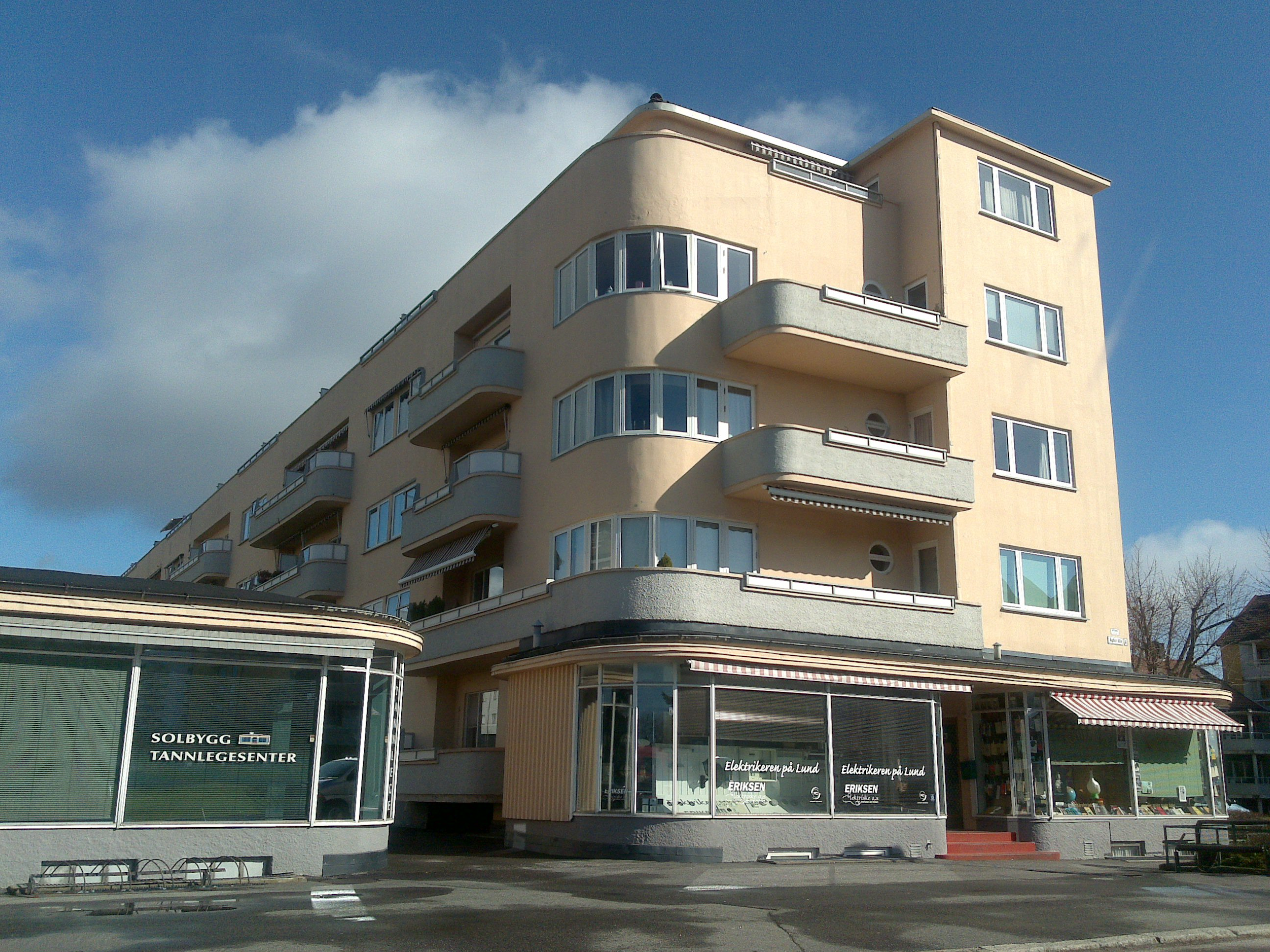 Dwelling building in Solbygg, Agder Allè 4 (Lund), Kristiansand (Norway). Built 1946-48 by german architect Thilo Schoder. Functionalism.